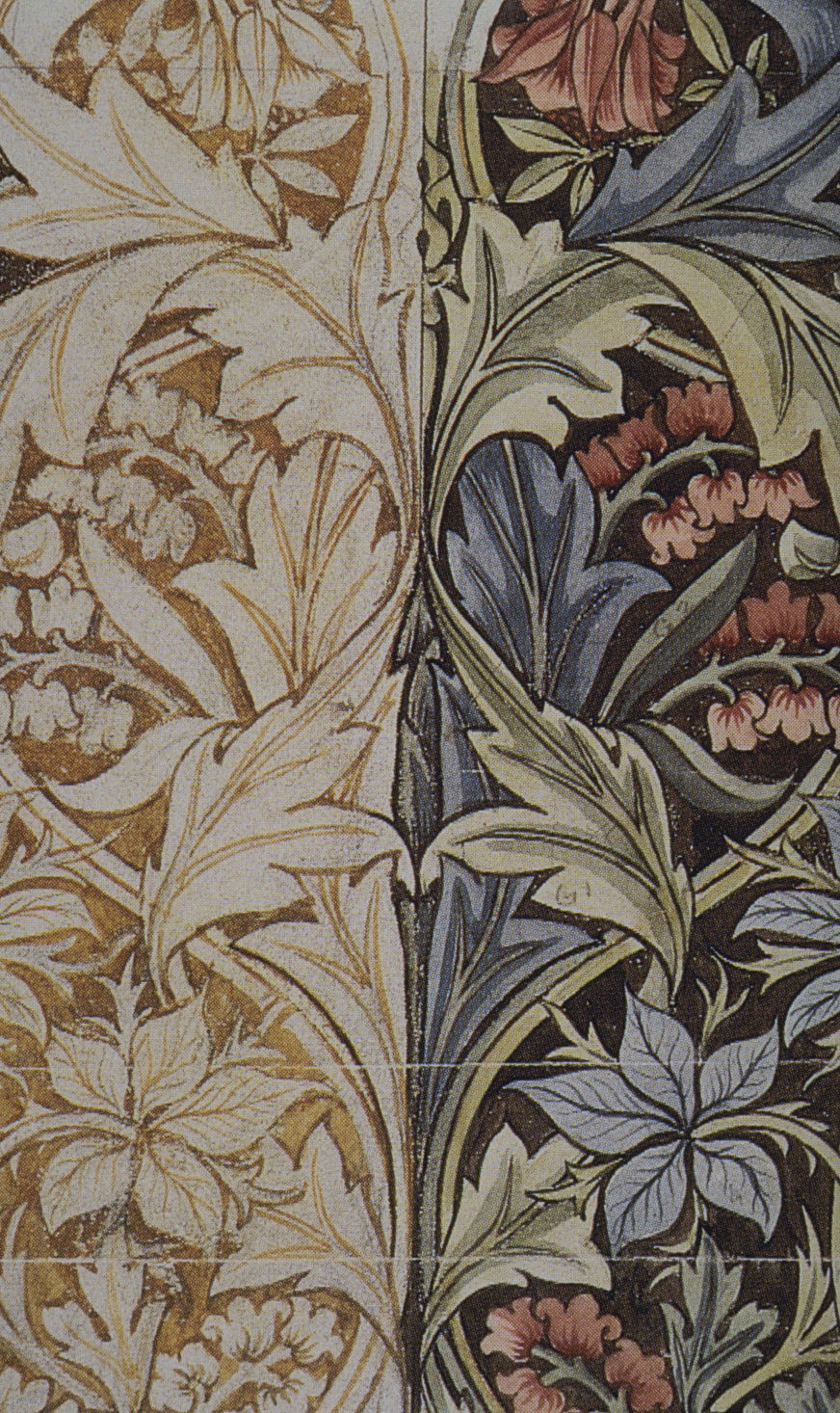 Detail of design for Bluebell or Columbine printed fabric designed by William Morris. (Identification from Linda Parry, ed.: William Morris, Abrams, 1996, ISBN 0-8109-4282-8, p. 39)